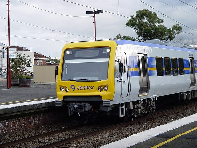 An X'Trapolis train operated by Connex pulls into Melbourne's Glenferrie railway station.